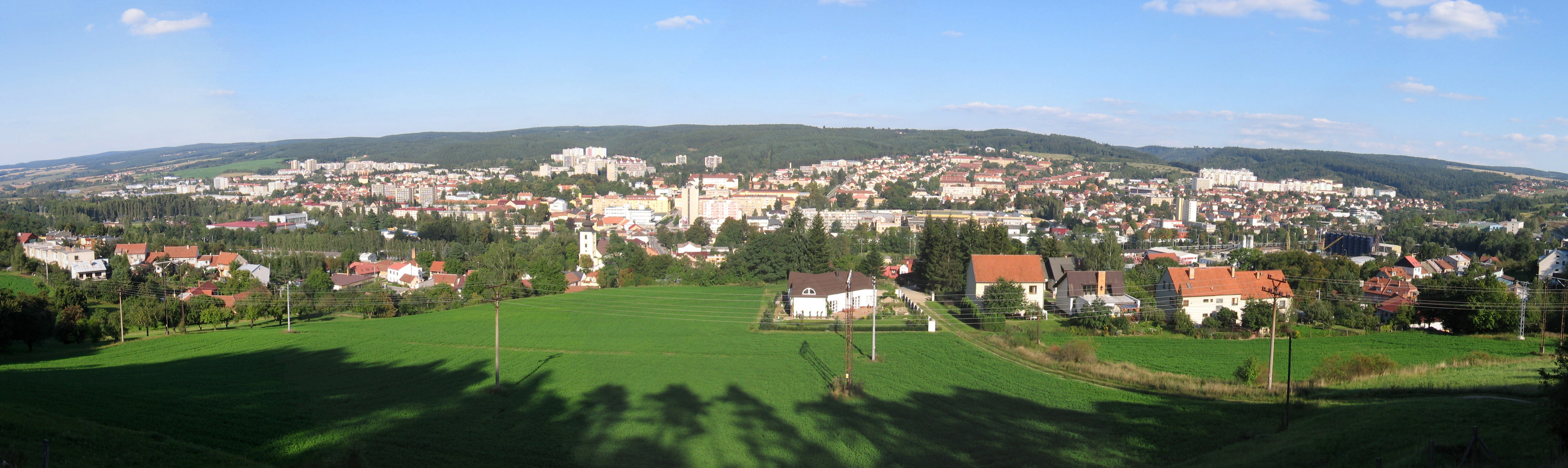 Panoramic view of Blansko, Czech Republic.